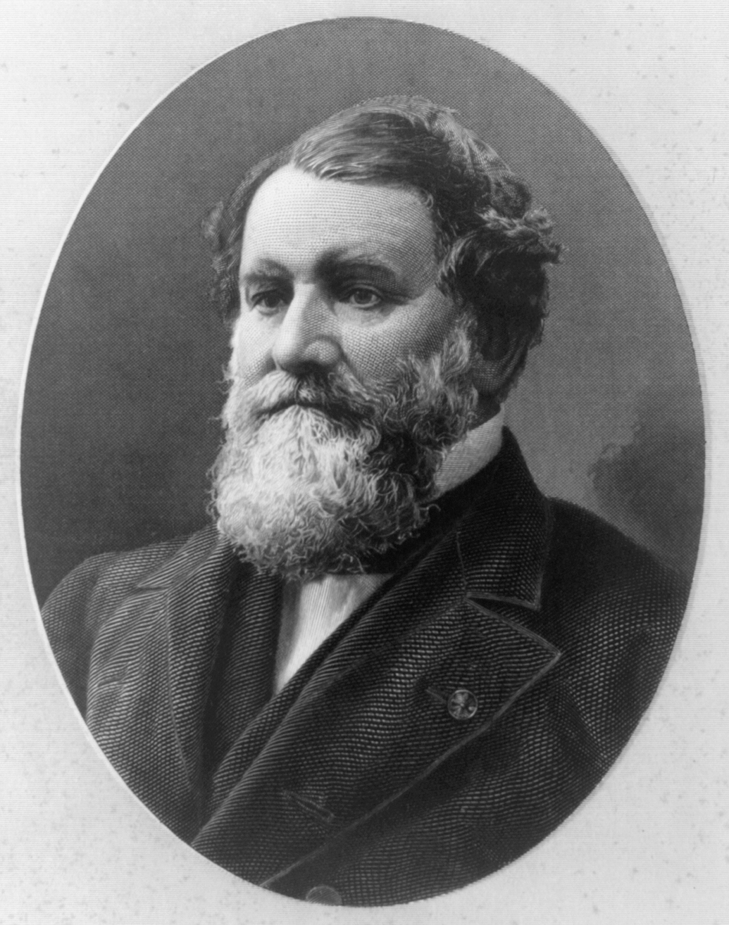 Cyrus McCormick (1809–1884) American inventor of the mechanical reaper.